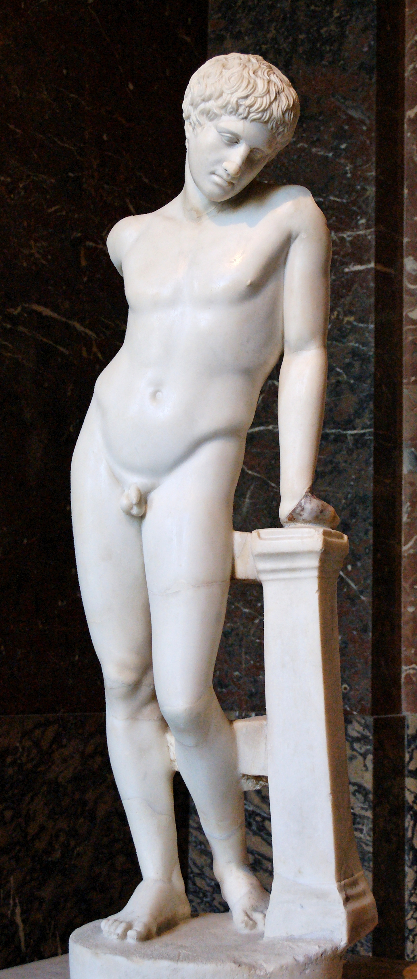 Statue of an ephebe, traditionnally identified as Narcissus or Hyacinthus. Marble, Roman copy from ca. 100 AD after a Greek original of the late 5th century BC. Found in Italy.